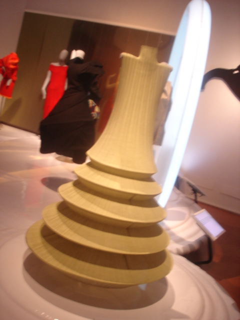 Issey Miyake designer dress in a Florence, Italy museum in 2007